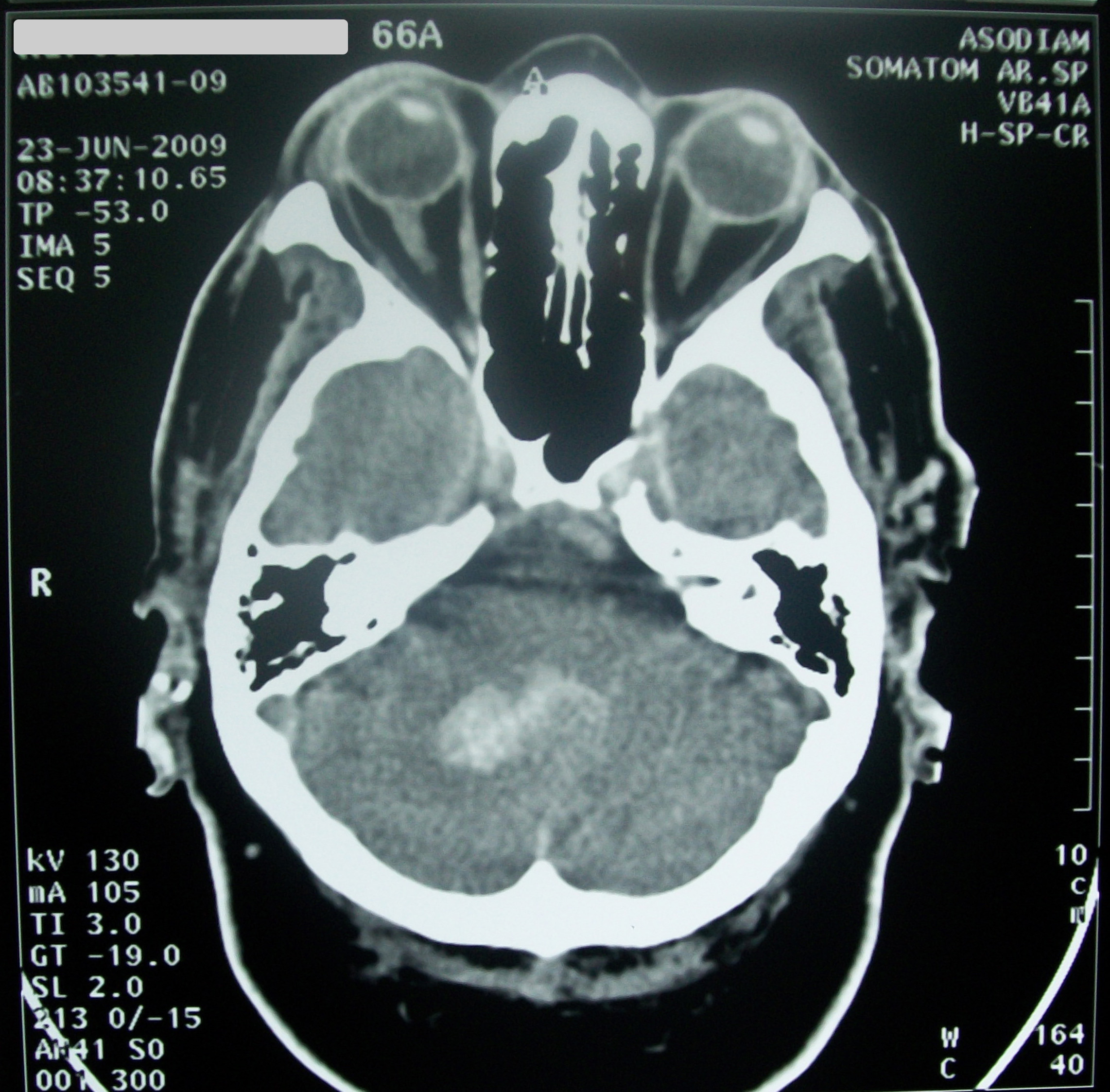 Head CT showing deep intracerebral hemorrhage due to bleeding within the cerebellum, approximately 30 hours old: same patient as TAC craneo ECV.jpg.